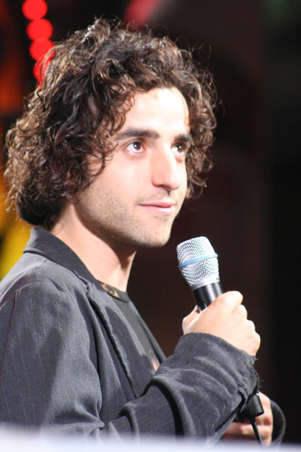 American actor David Krumholtz at the premiere of Serenity